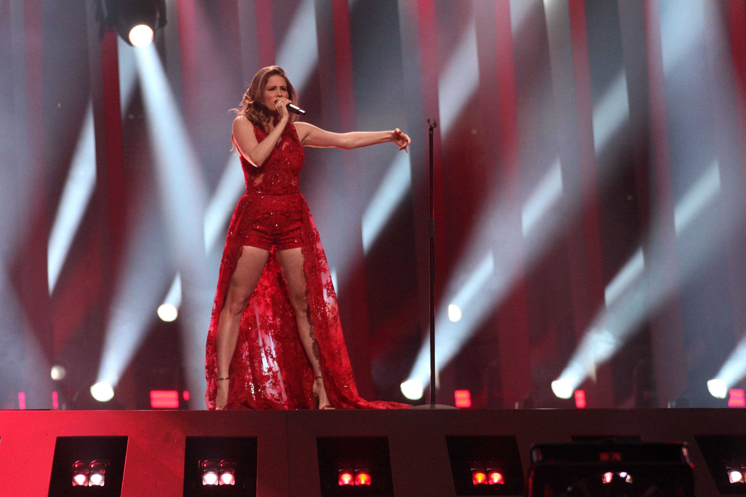 Laura Rizzotto representing Latvia with the song "Funny Girl" during a rehearsal before the second semi final of the Eurovision Song Contest 2018 in Lisbon.